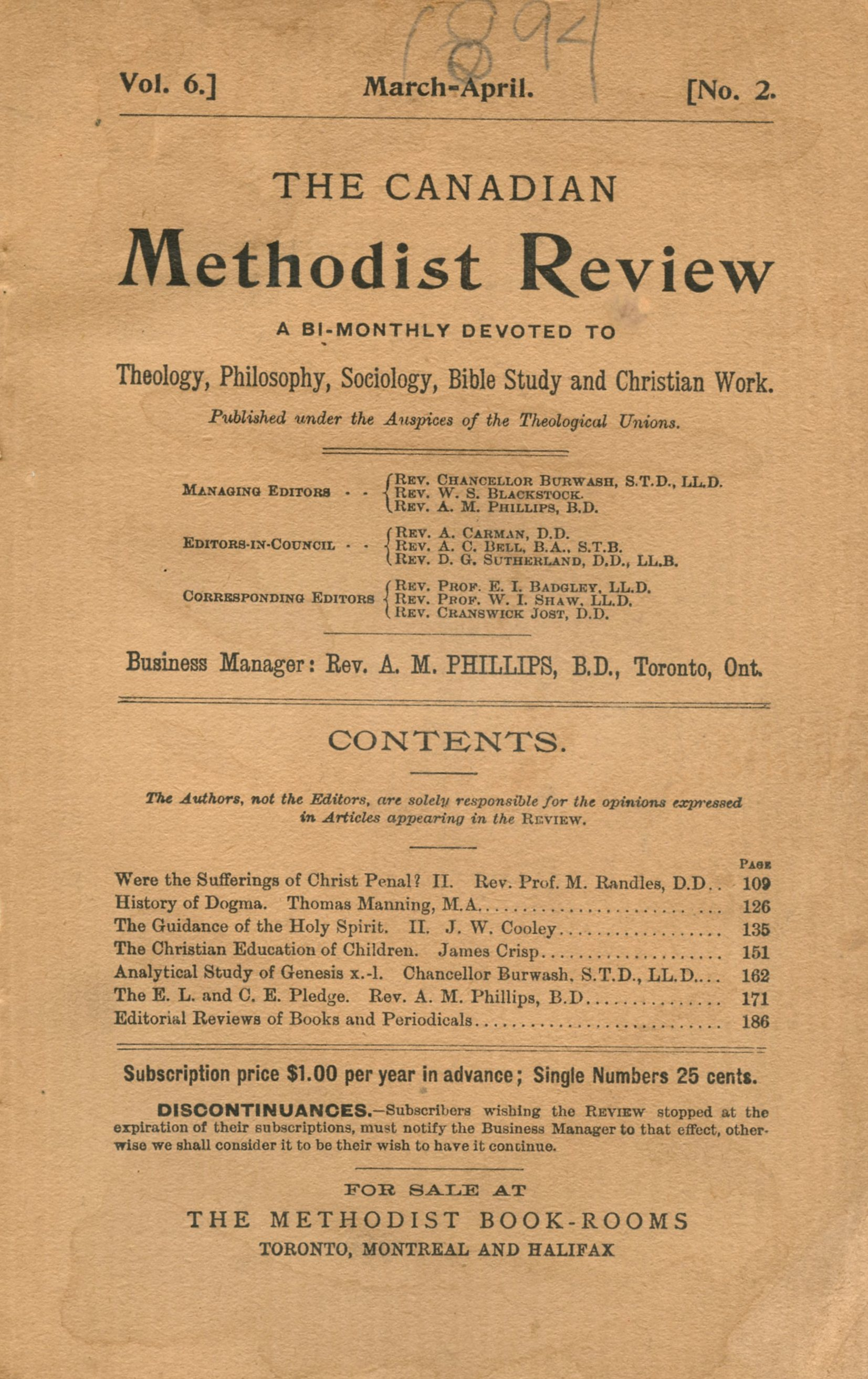 Cover of the March-April, 1894 edition of the Canadian Methodist Review